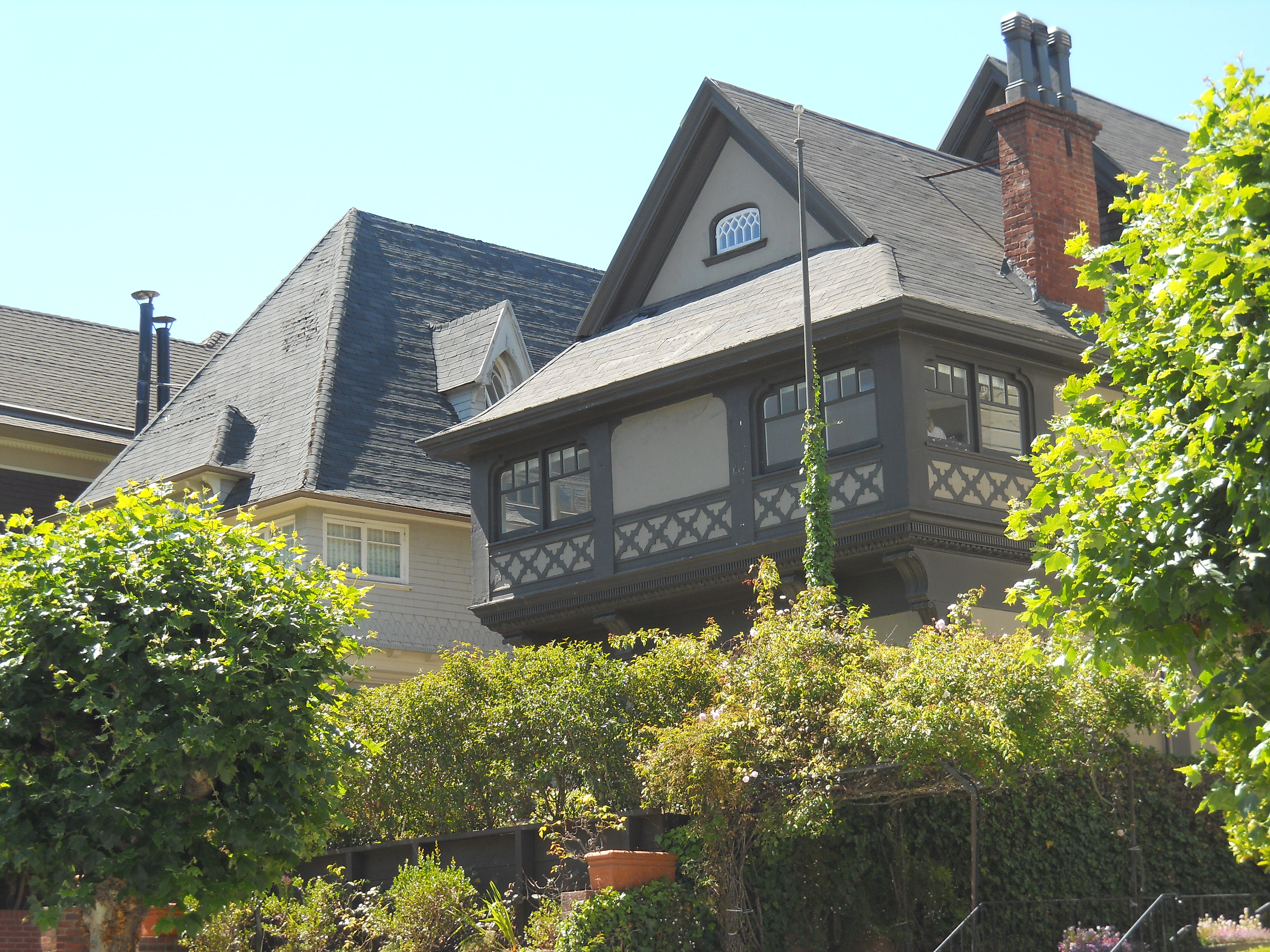 House at 2508 Green Street, San Francisco, California (behind to the left, 2510 Green Street)